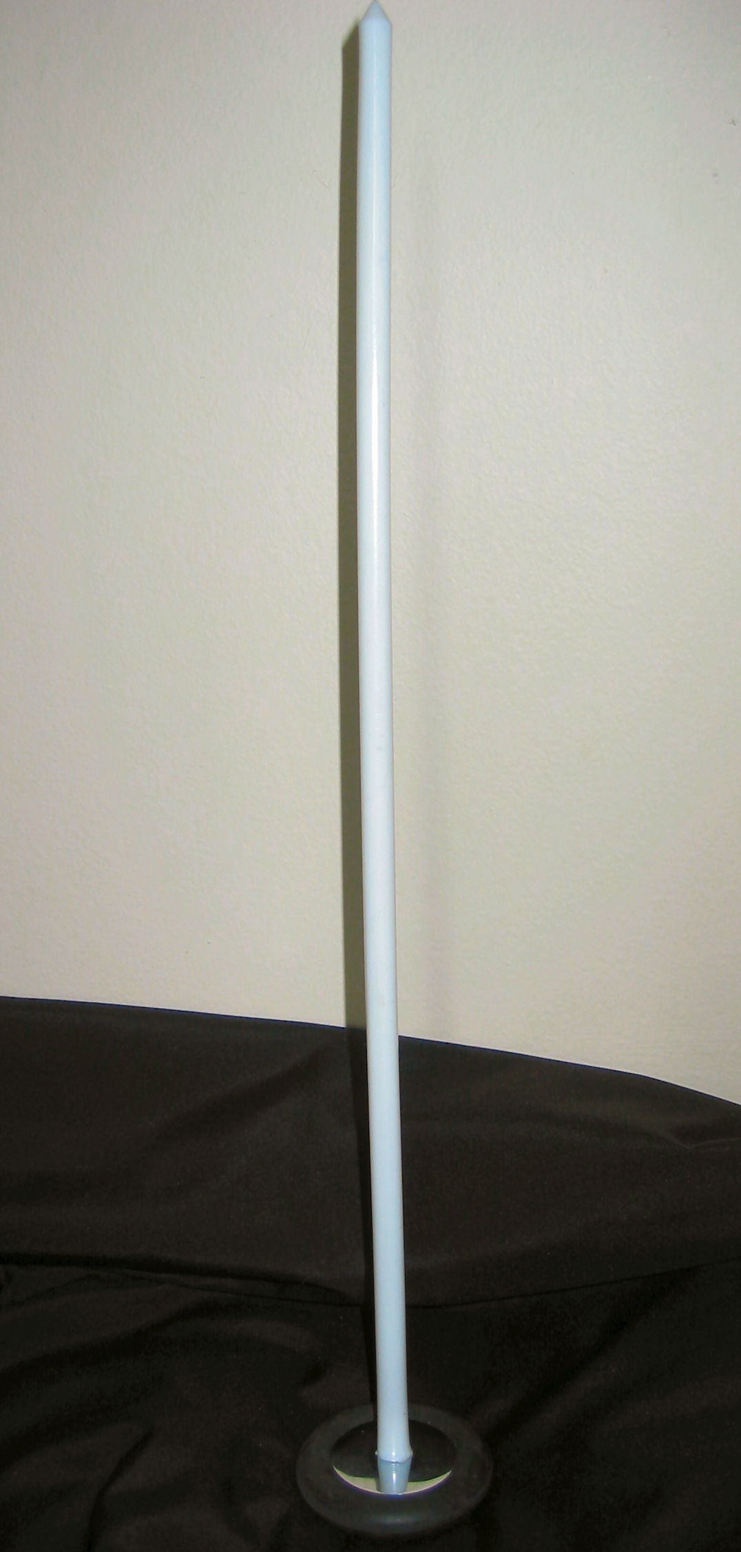 Queen square reflex hammer. Photograph by myself (Samir)